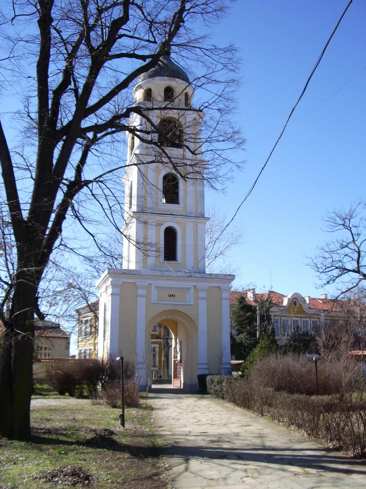 The belfry of church "Saint George", Yambol, Bulgaria